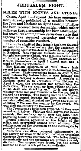 Nebi Musa riots, The Times, Thursday, Apr 08, 1920